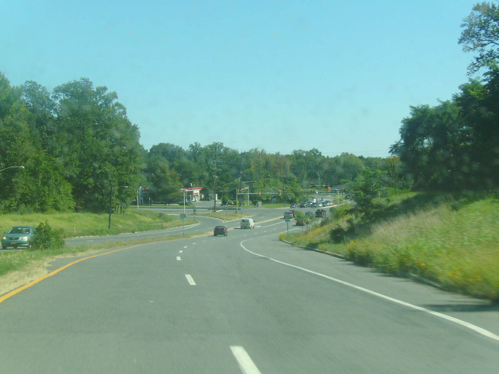 The interchange with Route 1 along Promenade Boulevard, a future part of County Route 522 in South Brunswick, New Jersey. Route 522 begins at the other end of the traffic light.